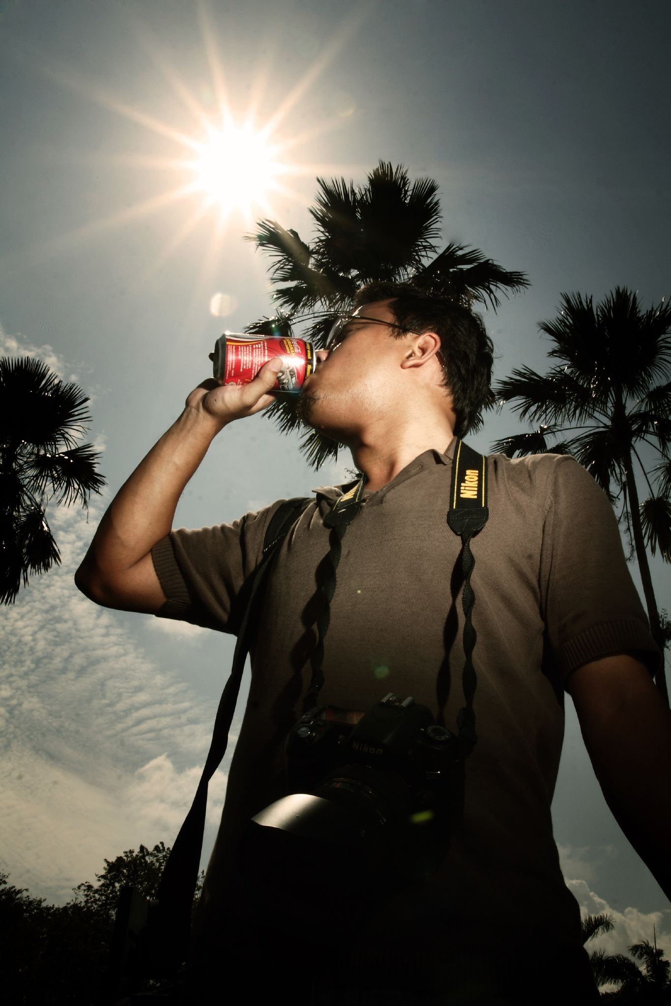 Refreshing the Heat